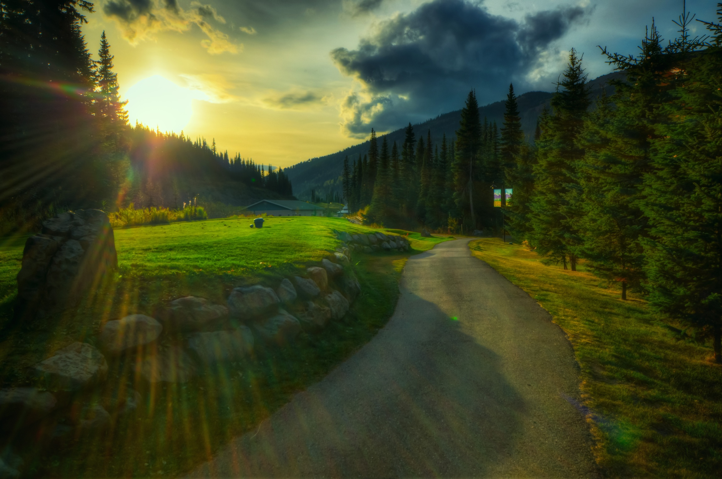 Sun Peaks, BC Golf Course on sunset